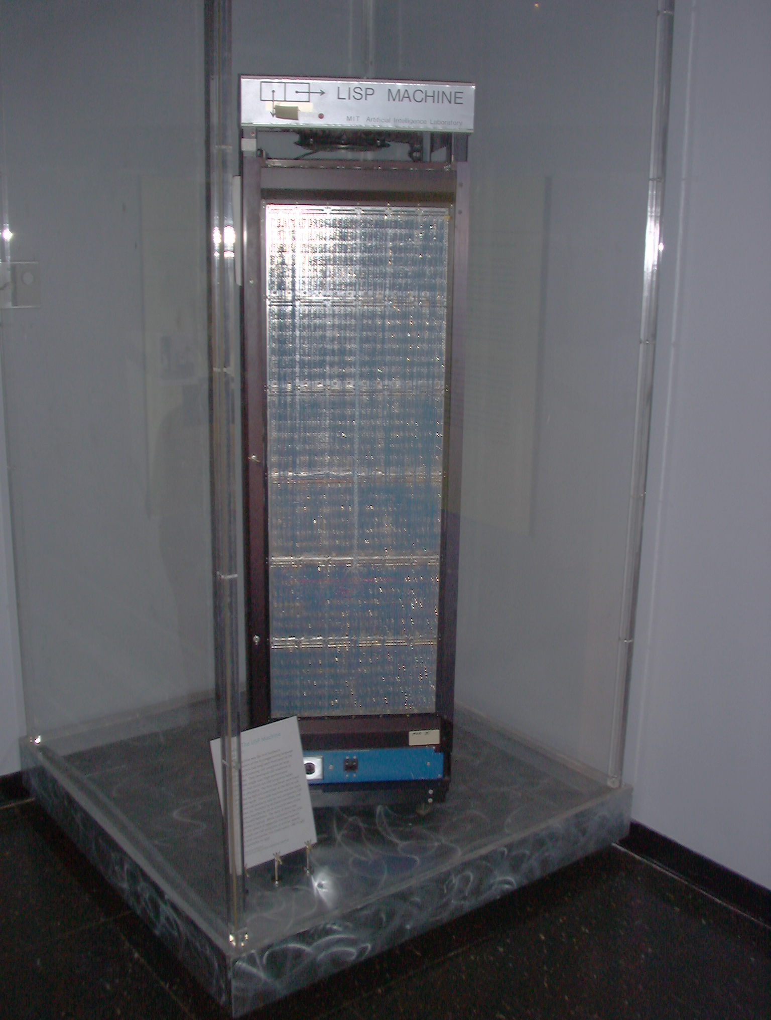 A LISP machine at the MIT Museum; probably one of the Knight machines manufactured by MIT.